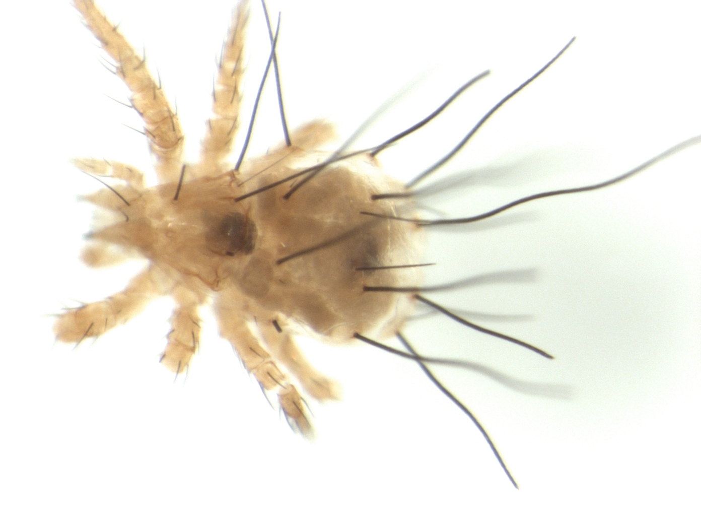 Stomacarus sp.